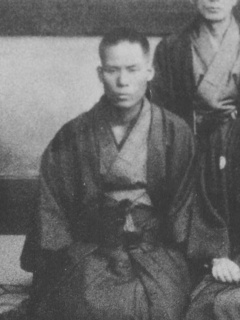 Tatsuo Matsuda (Shogi players). taken in 1939.